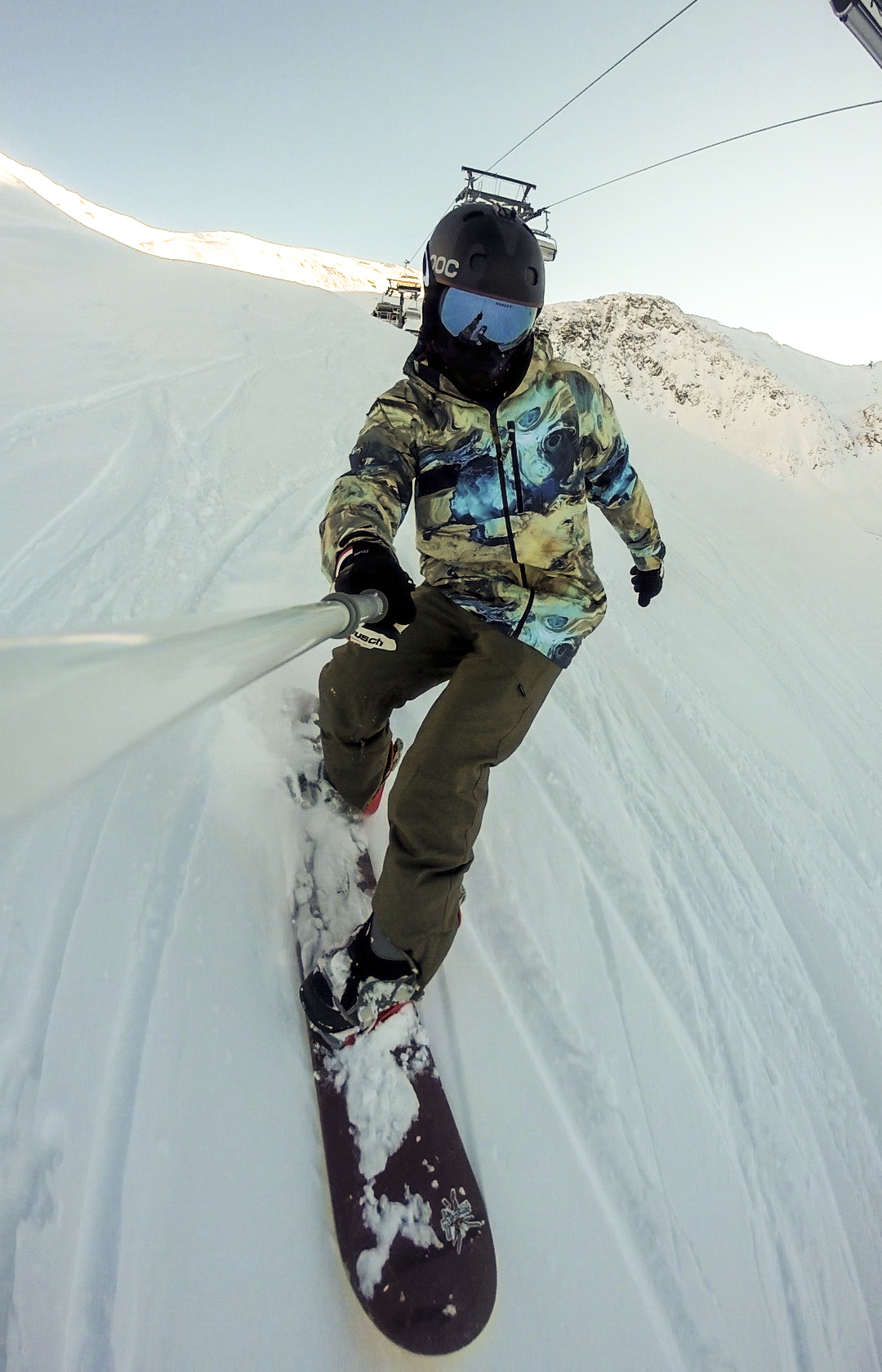 snowboarding in austria, shoot with gopro hero 3+